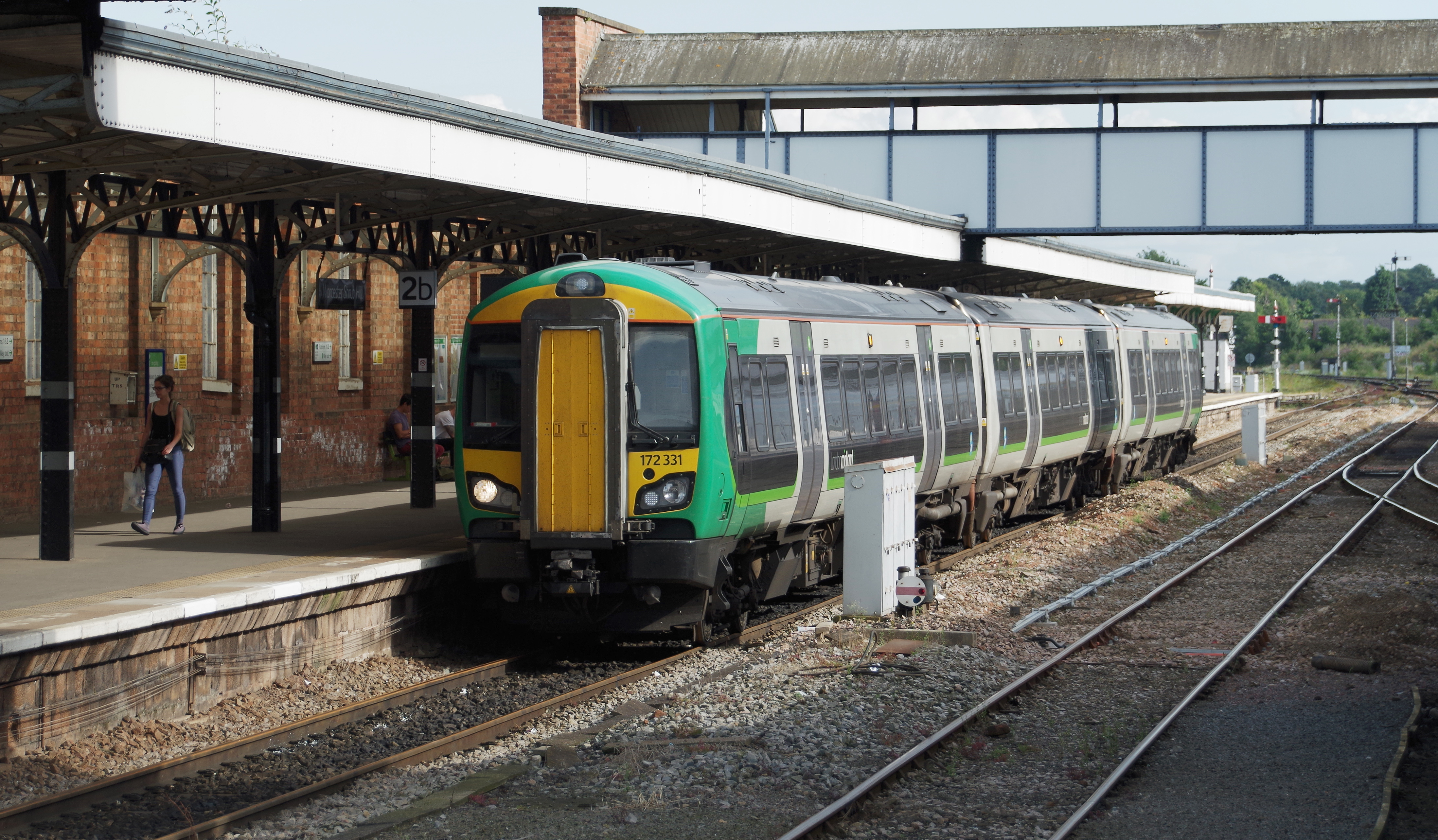 London Midland class 172 "Turbostar" DMU 172331 stands at Worcester Shrub Hill, preparing to operate a service to Stratford-upon-Avon.